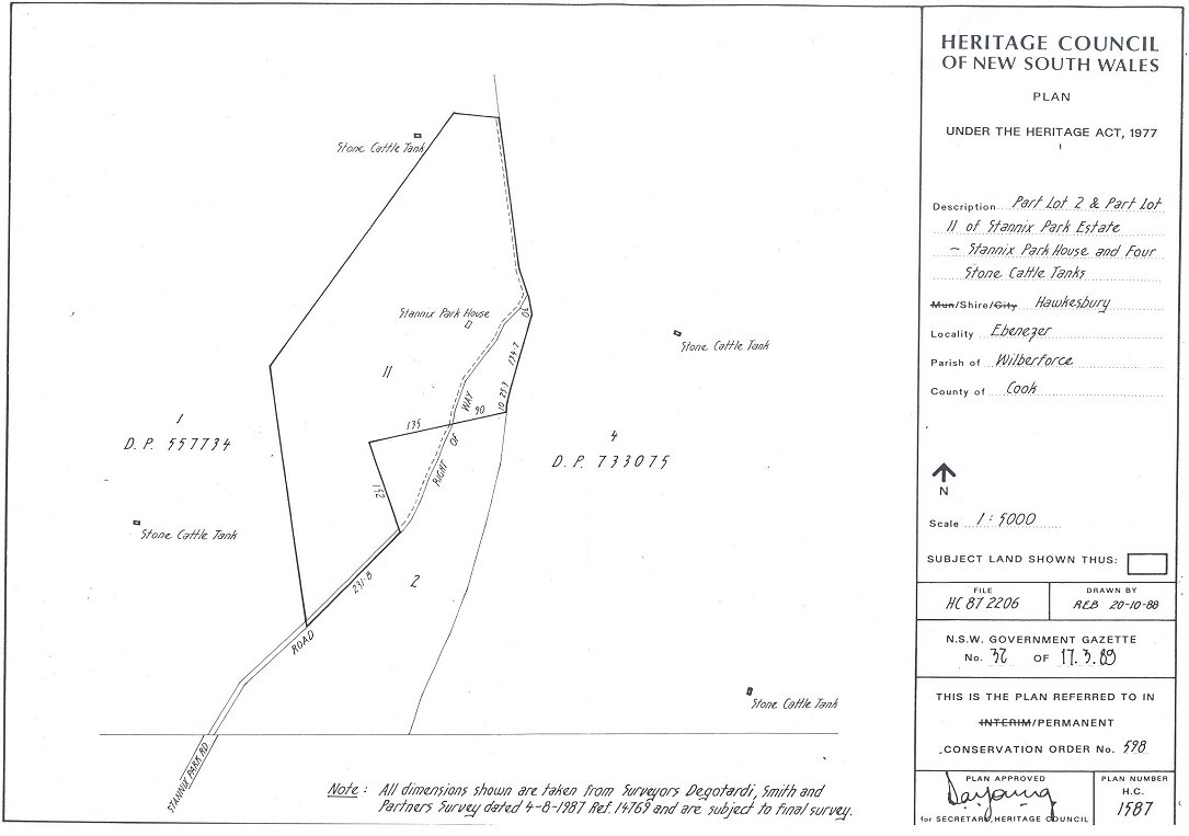 Stannix Park House: PCO Plan Number 1587